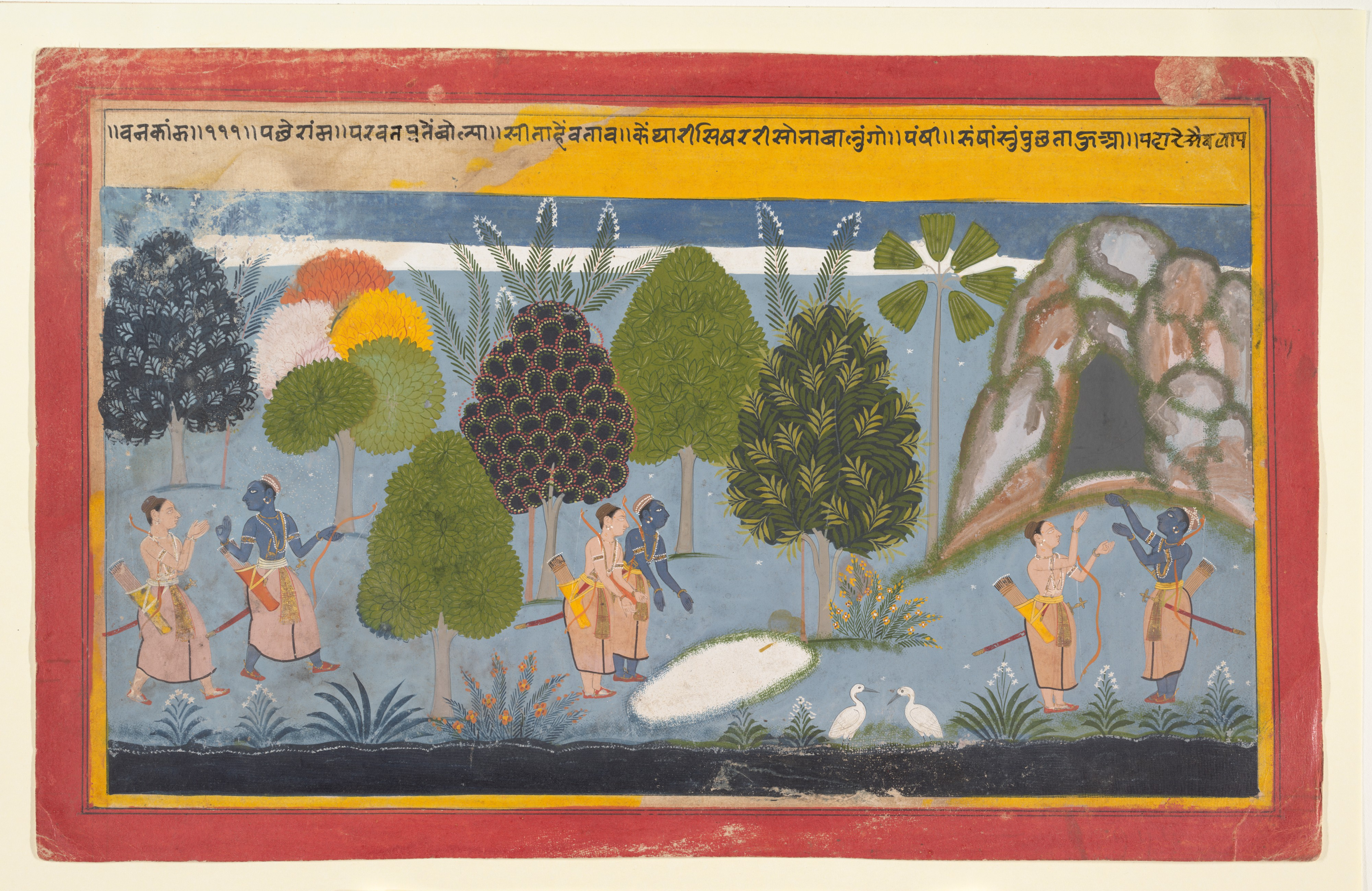 Scene from the Ramayana, in which Rama and Lakshmana unsuccessfully search for Sita. Held at the MET. Work is ink and opaque watercolor on paper and measures 16 1/4 x 10 1/4 in. (41.3 x 26 cm)